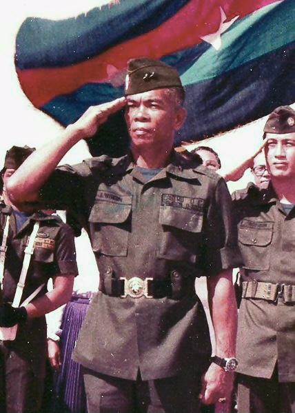 The file was scanned from the old photo album